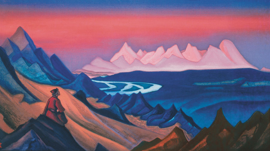 Nicholas Roerich "Song of Shambhala"